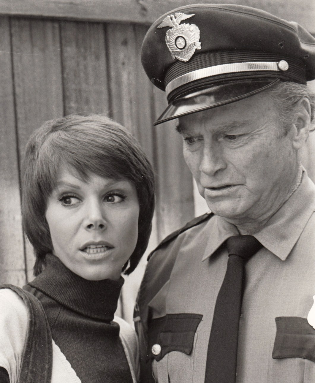 Judy Carne & Donald Barry (aka Don "Red" Barry) in the TV series Ironside, episode Once More for Joey - publicity still (cropped : see source)